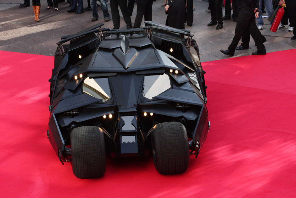 The Tumbler